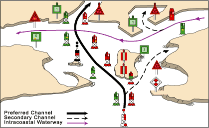 Aids to Navigation — Road Signs of the Waterway (Visual Buoyage)